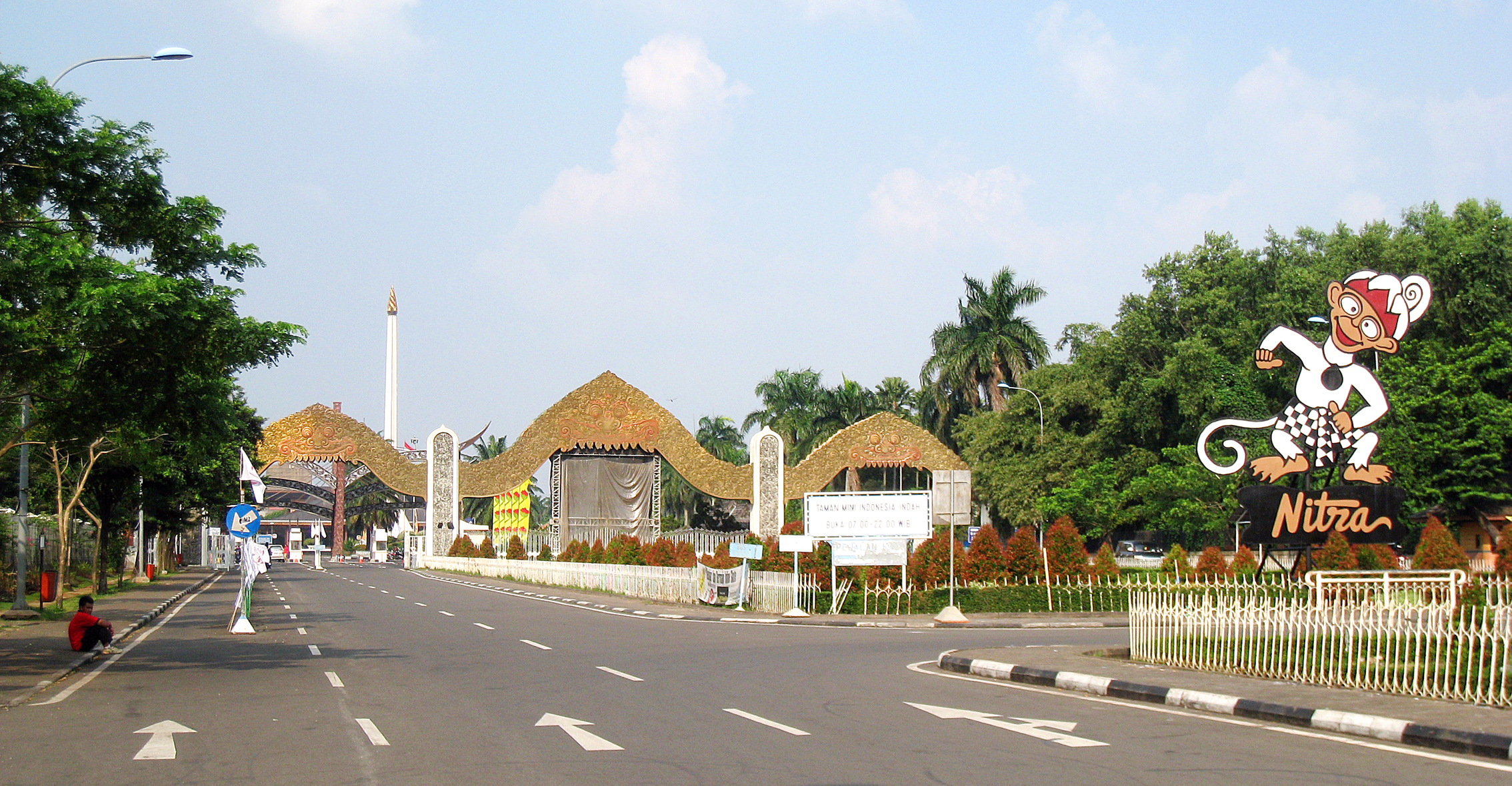 Taman Mini Indonesia Indah main entrance featuring Kala's head, Jakarta.